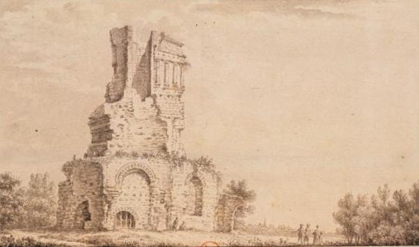 A drawing of the Torre Manha (Nimes), by J. Daubigny.